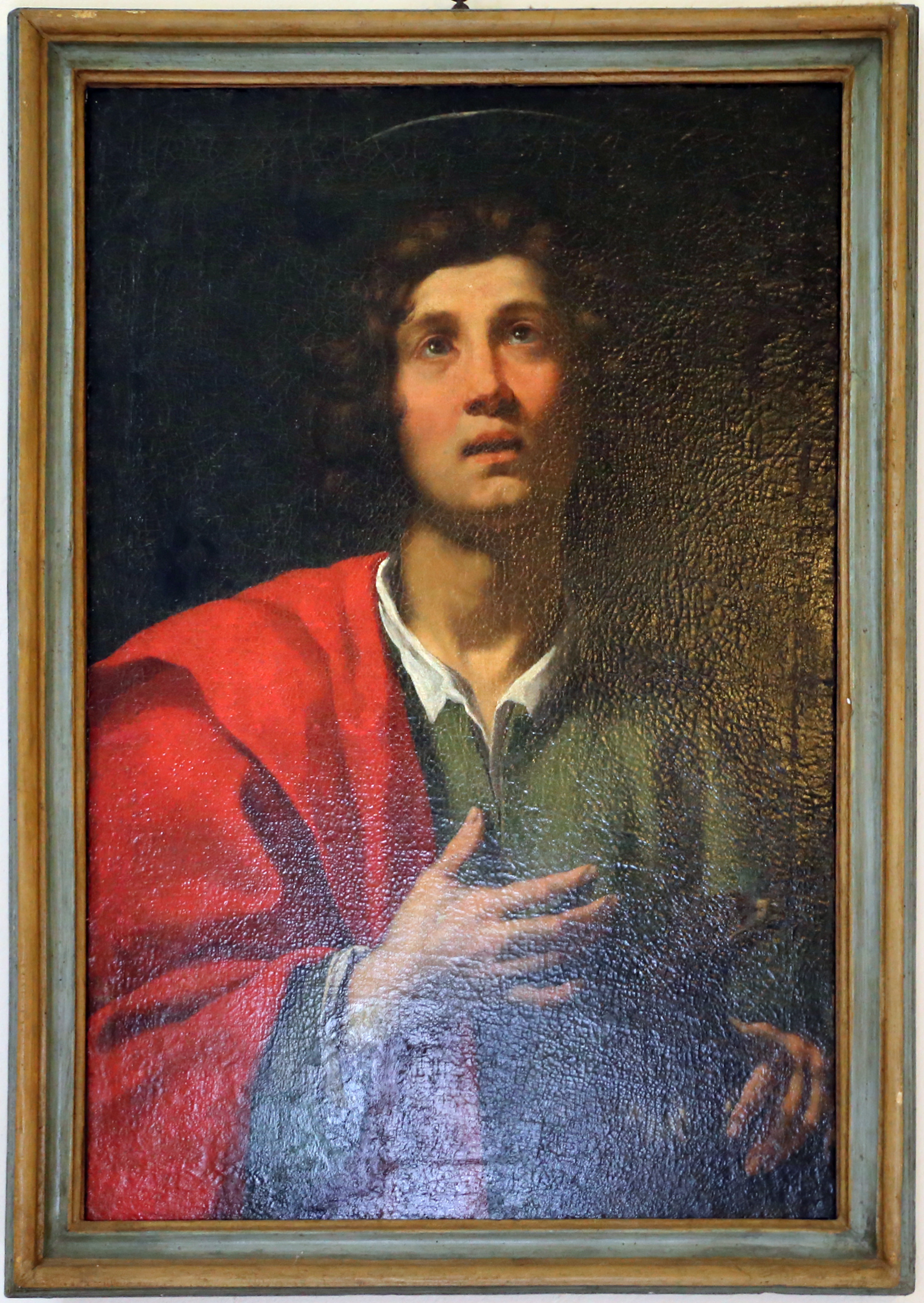 San Pietro (Vaglia) - Interior